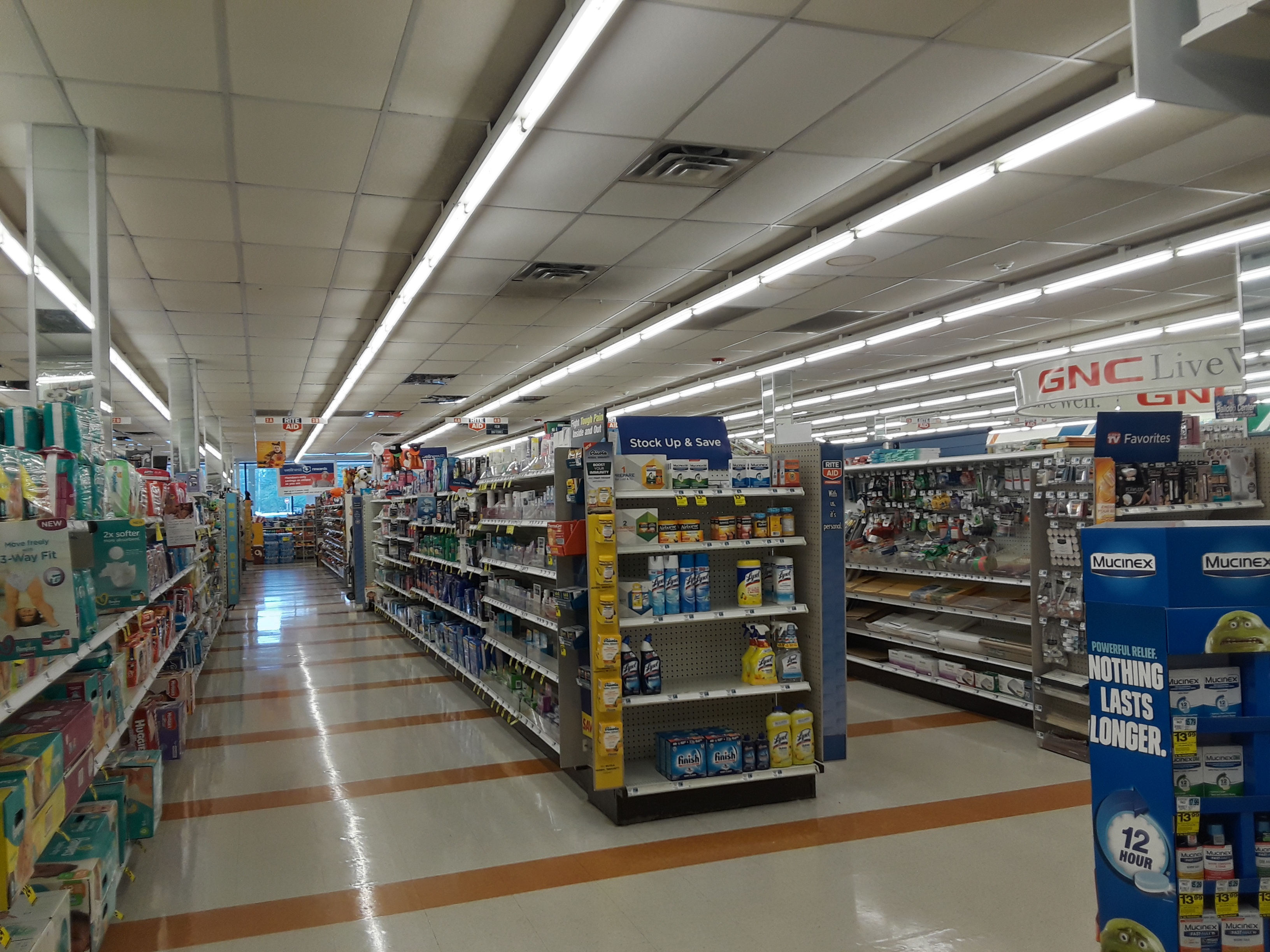 Rite Aid, Rose Hill, Fairfax County, Virginia